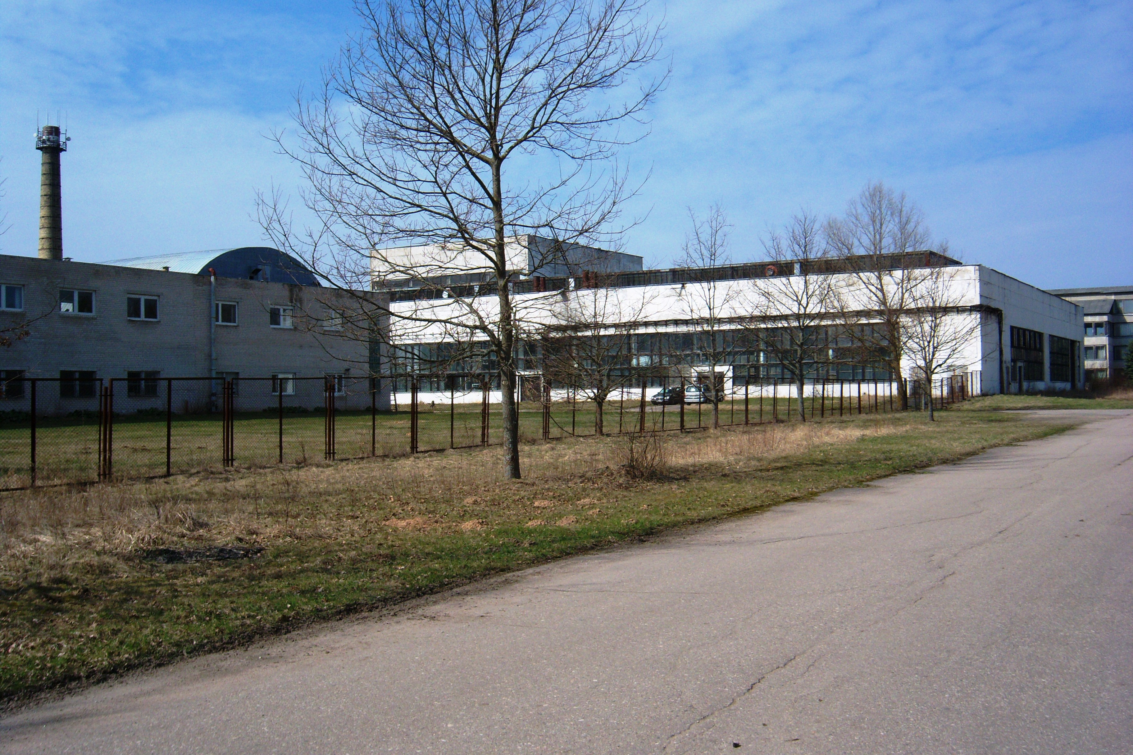 Sports aviation plant, Pociūnai (Prienai), Lithuania